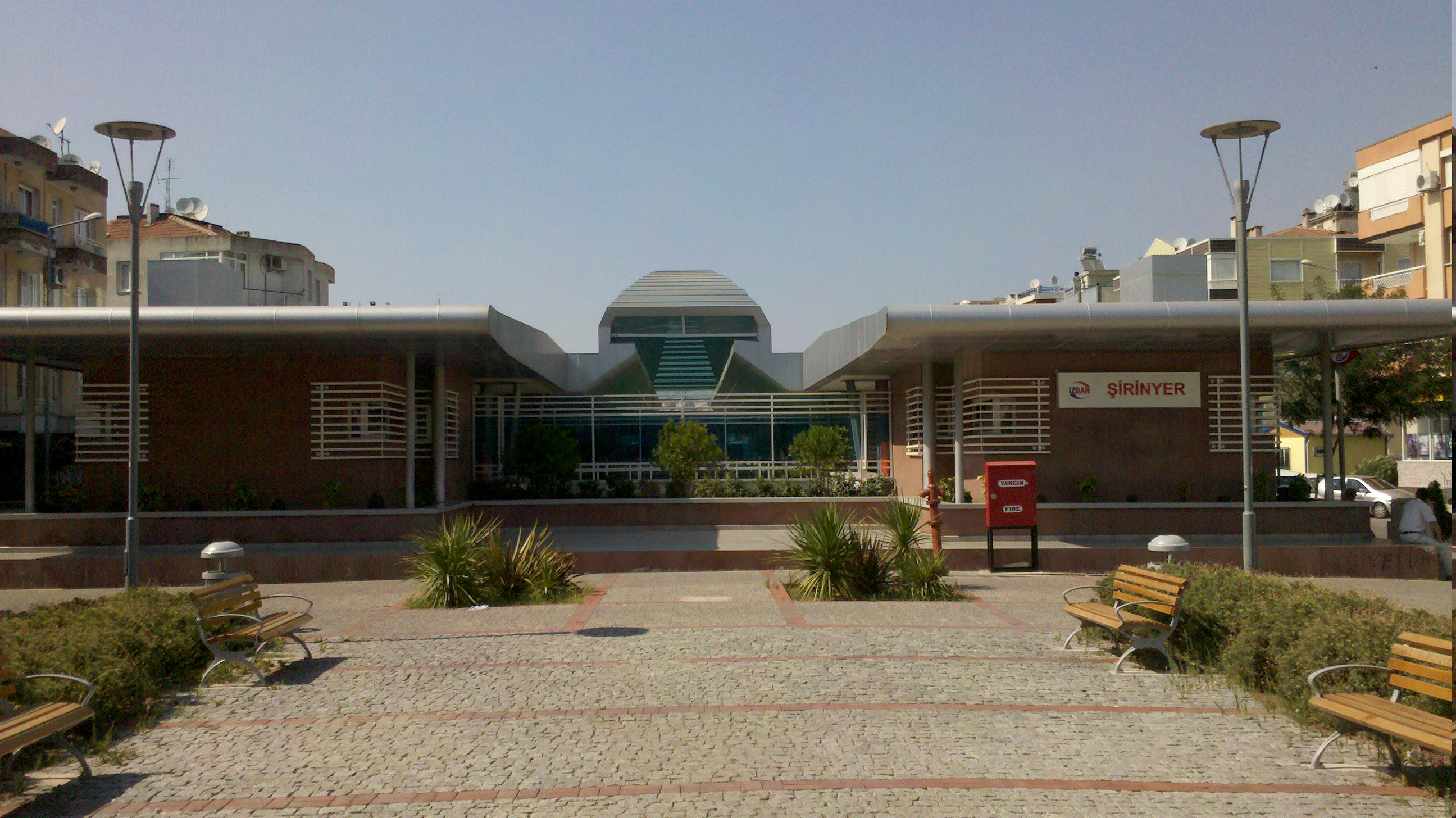 Sirinyer IZBAN station in 2011.